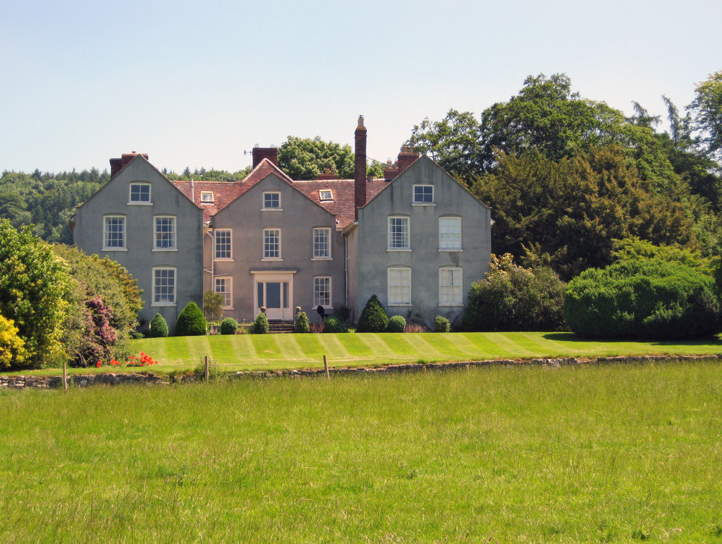 "From the park looking east to the ha-ha, lawn and the ends of the two wings. The main entrance is on the right. May have been the site of a Medieval building, but by 1655 it came into the hands of the Walcot family, who were Royalists with very close ties to Charles I. In 1766, the house was was completely redesigned and redecorated by Thomas Farnolls Pritchard. Since 1901 it has been owned by the Wheeler family."[1]